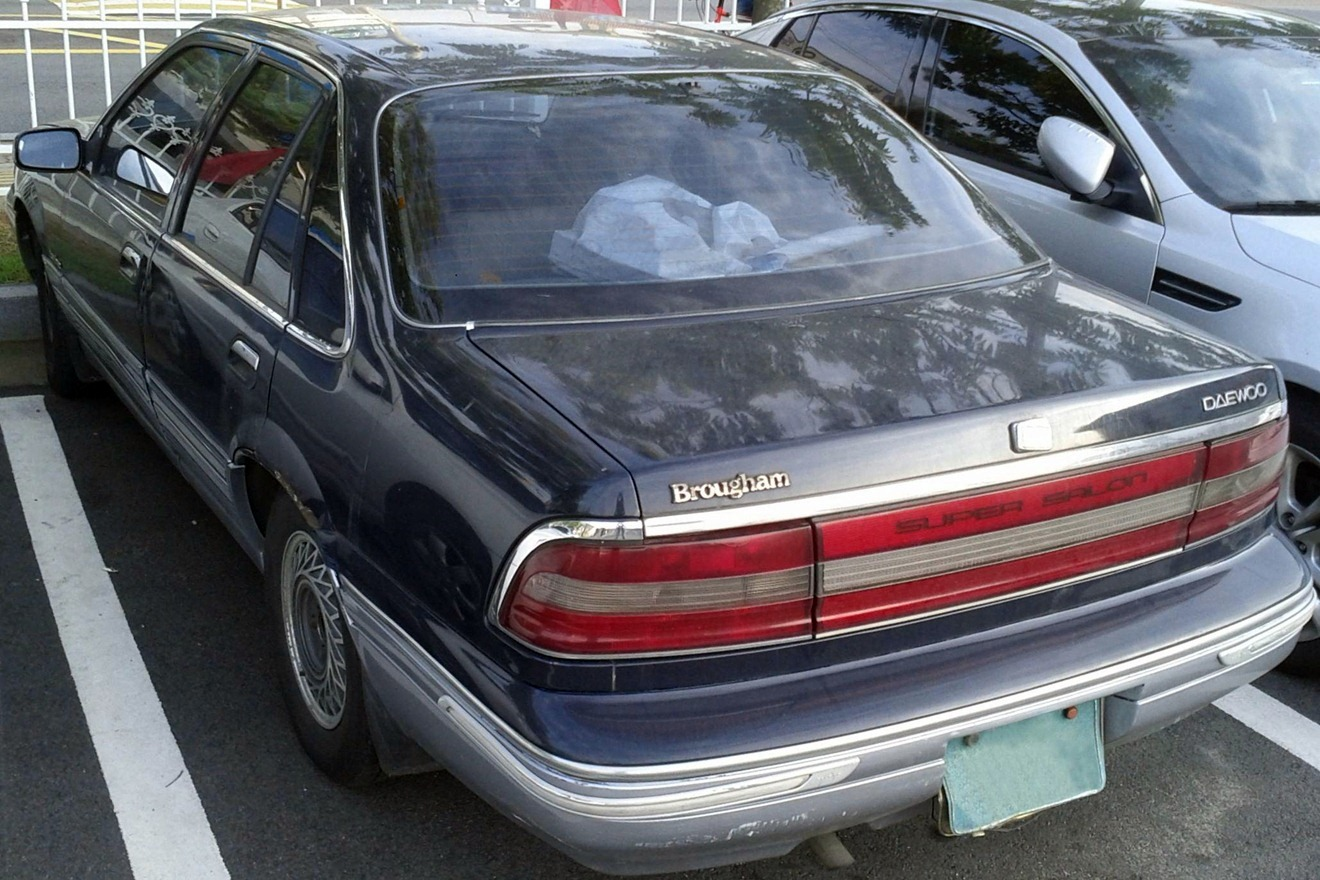 Daewoo Super Salon